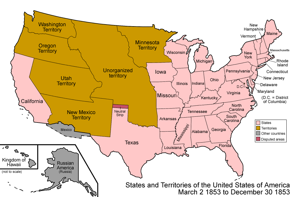 Map of the states and territories of the United States as it was from March 1853 to December 1853. On March 2 1853, Washington Territory was split from Oregon Territory. On December 30 1853, the Gadsden Purchase added a small part of Mexico to New Mexico Territory. At this point, the borders of the present-day continental United States were complete.